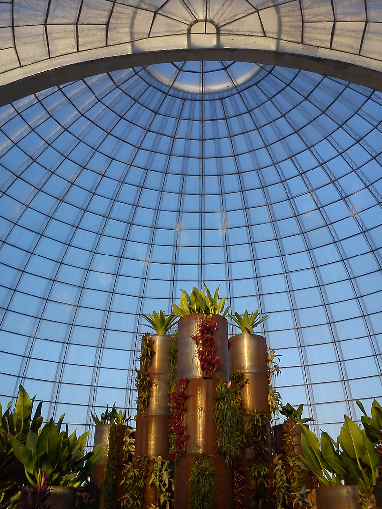 Internal view of the Ruth Cardoso Orchidarium